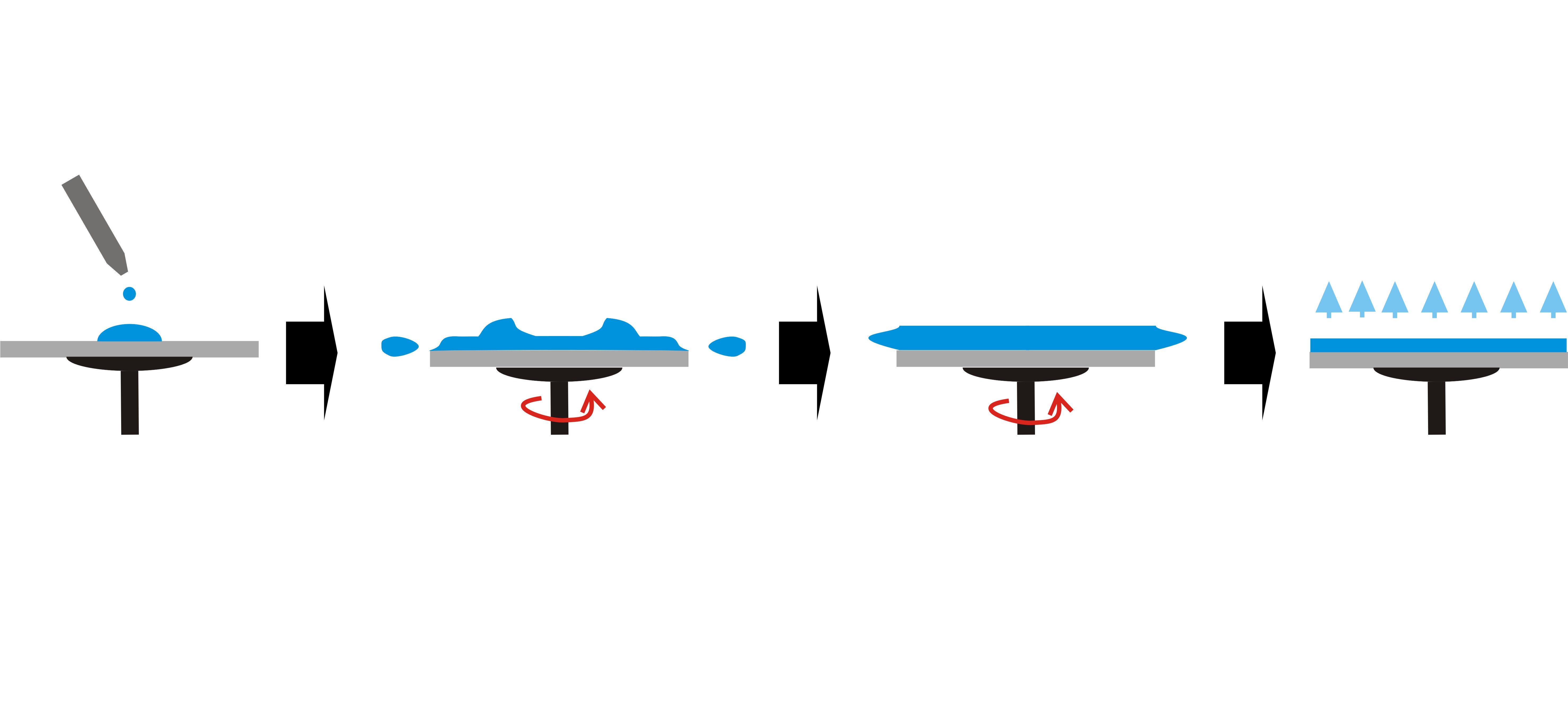 Stages of Spin-Coating Process